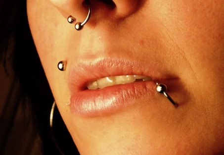 several piercings